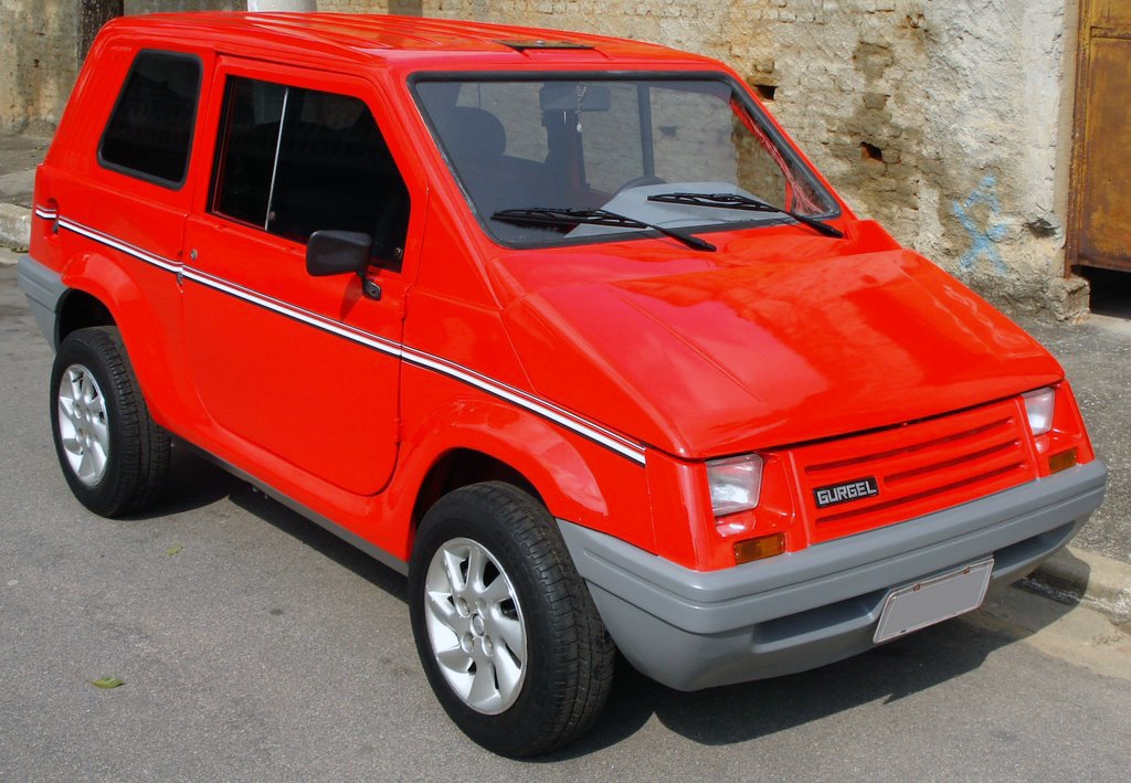 1991 Gurgel BR800 SL - after having the plastic body redone and recolored. This has also received a 1.5 liter four-cylinder engine in place of the original "Enertron" boxer-two.